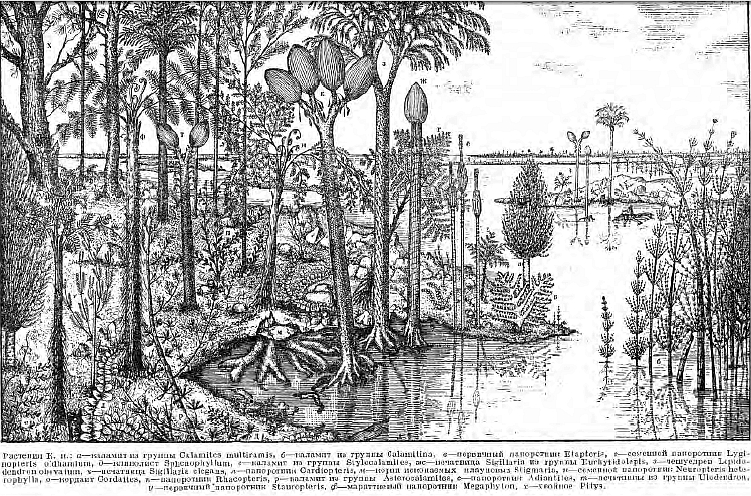 Plants of the Carboniferous period